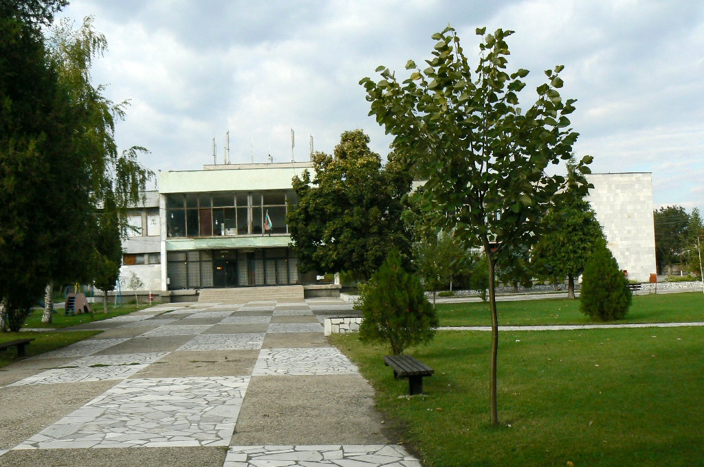 The mayors' office in village Ognyanovo (district Pazardjik)